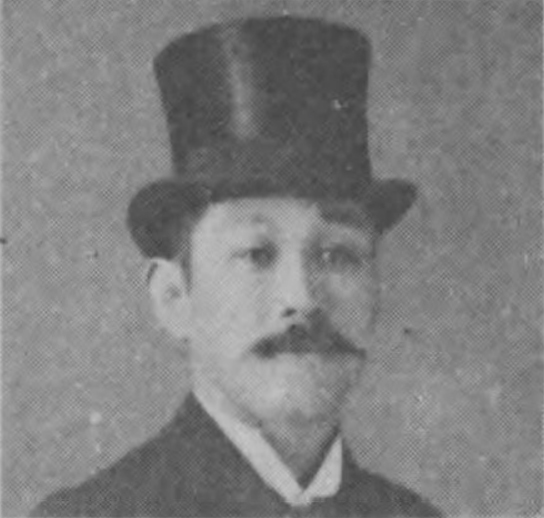 A Japanese jujutsuka and judoka, Mataemon Tanabe.